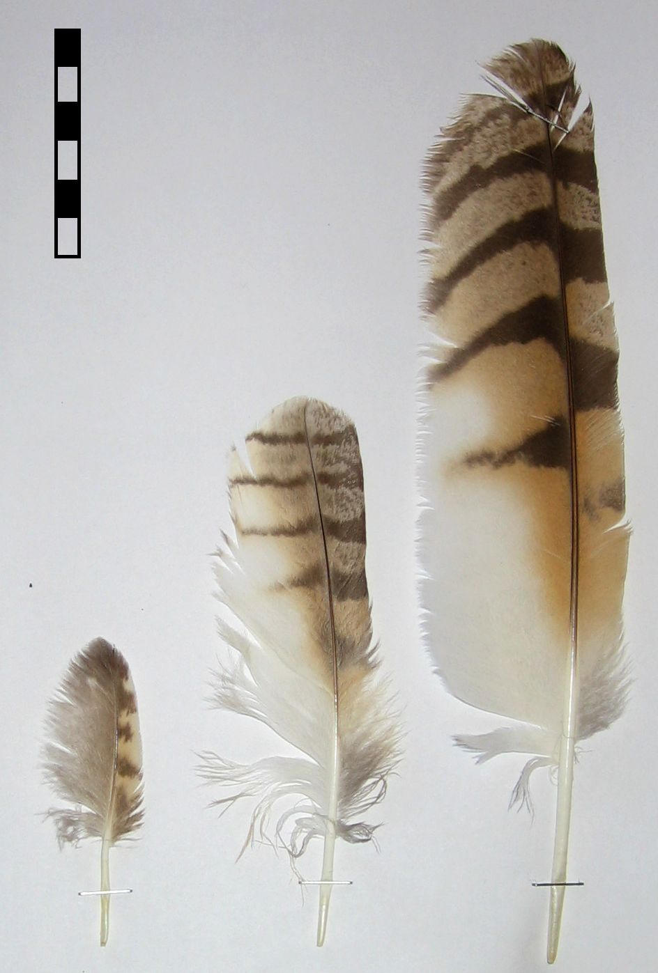 Feathers of Asio Otus (Long-eared Owl)